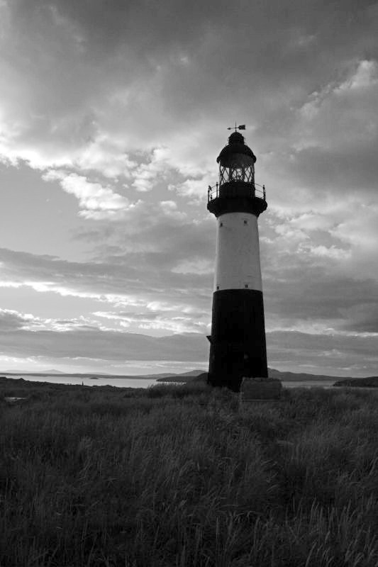 Pembroke lighthouse, Stanley, Falkland Islands, viewed from the east